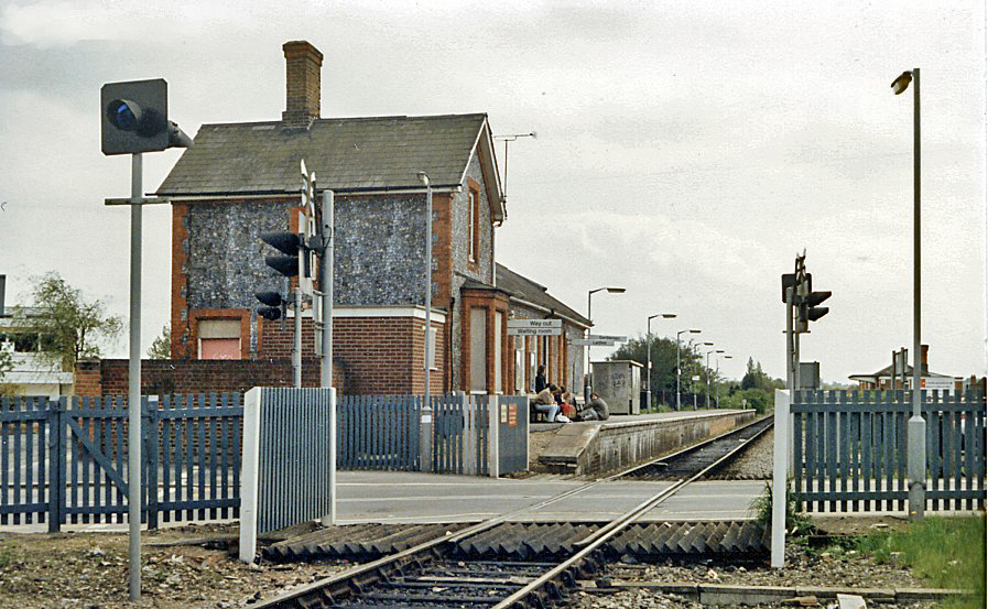 Cookham station. View southward at the B4447 level-crossing, towards Maidenhead: ex-GW branch from Maidenhead, which until 4/5/70 ran to High Wycombe with a separate shuttle Bourne End - Marlow. Bourne End - High Wycombe was then closed and the service has run Maidenhead - Marlow.